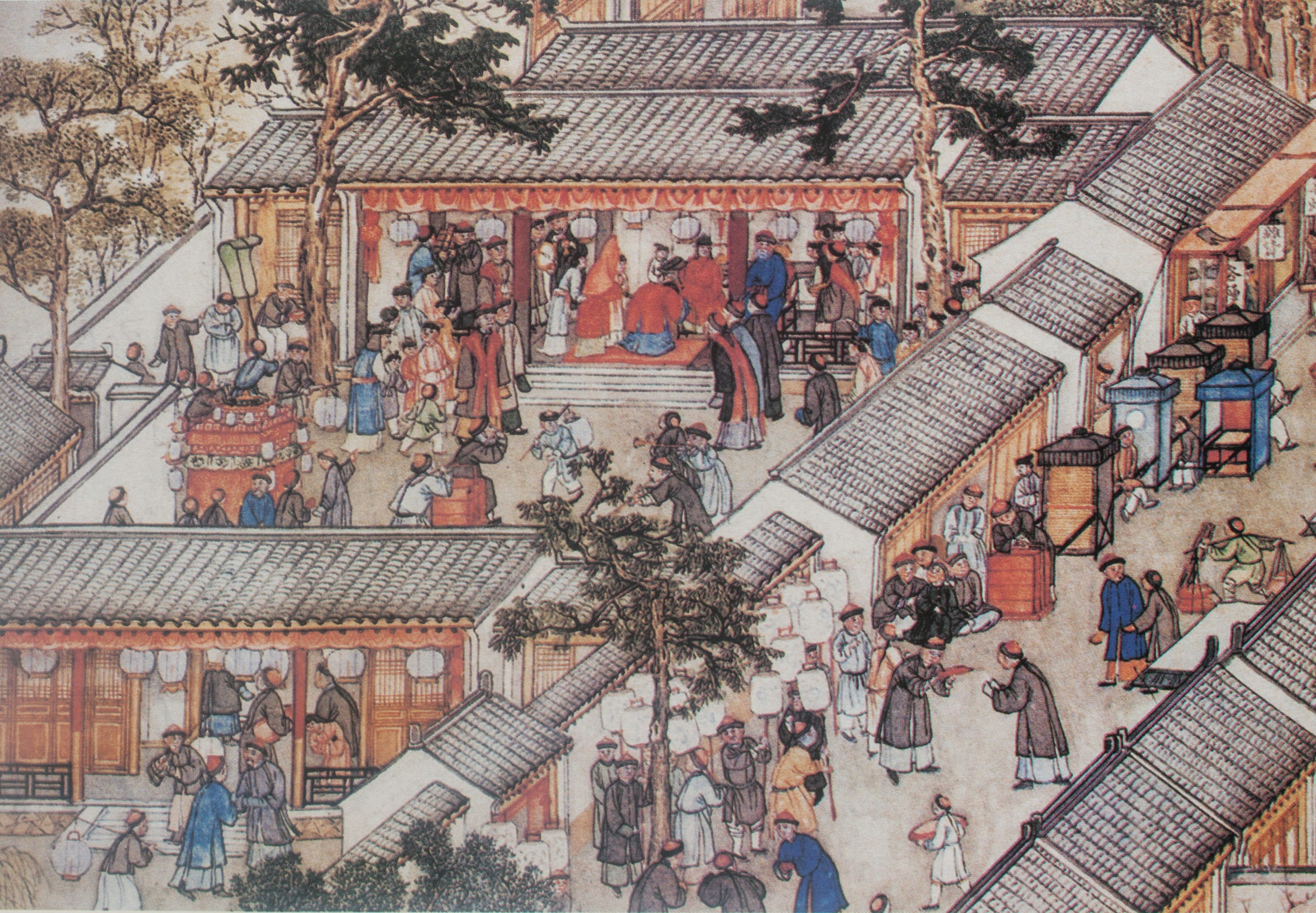 Detail of scroll about Suzhou made on the order of Emperor Qianlong